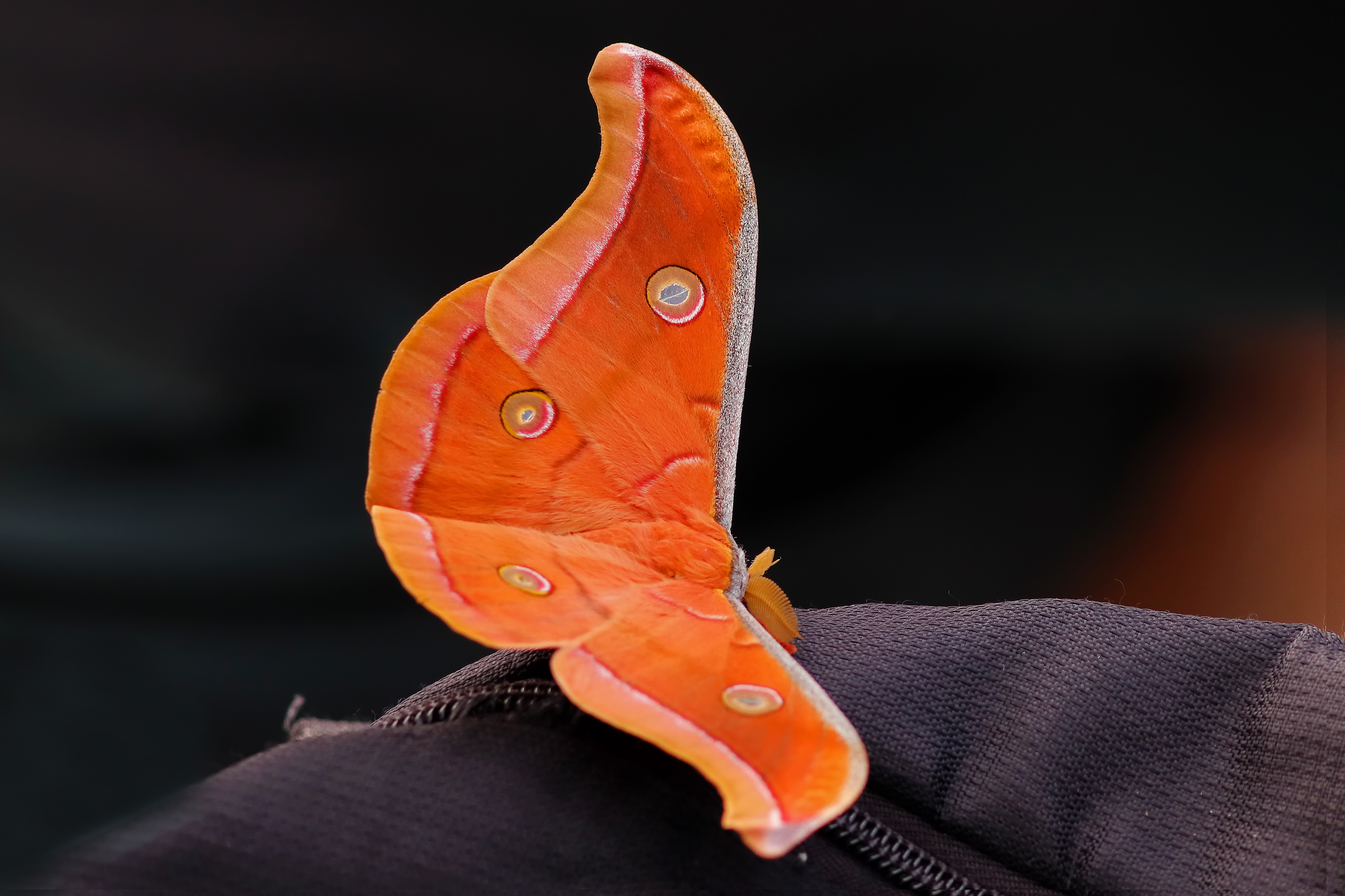 Antheraea mylitta moth found during pelagic birding trip, Off coast Mangalore, India